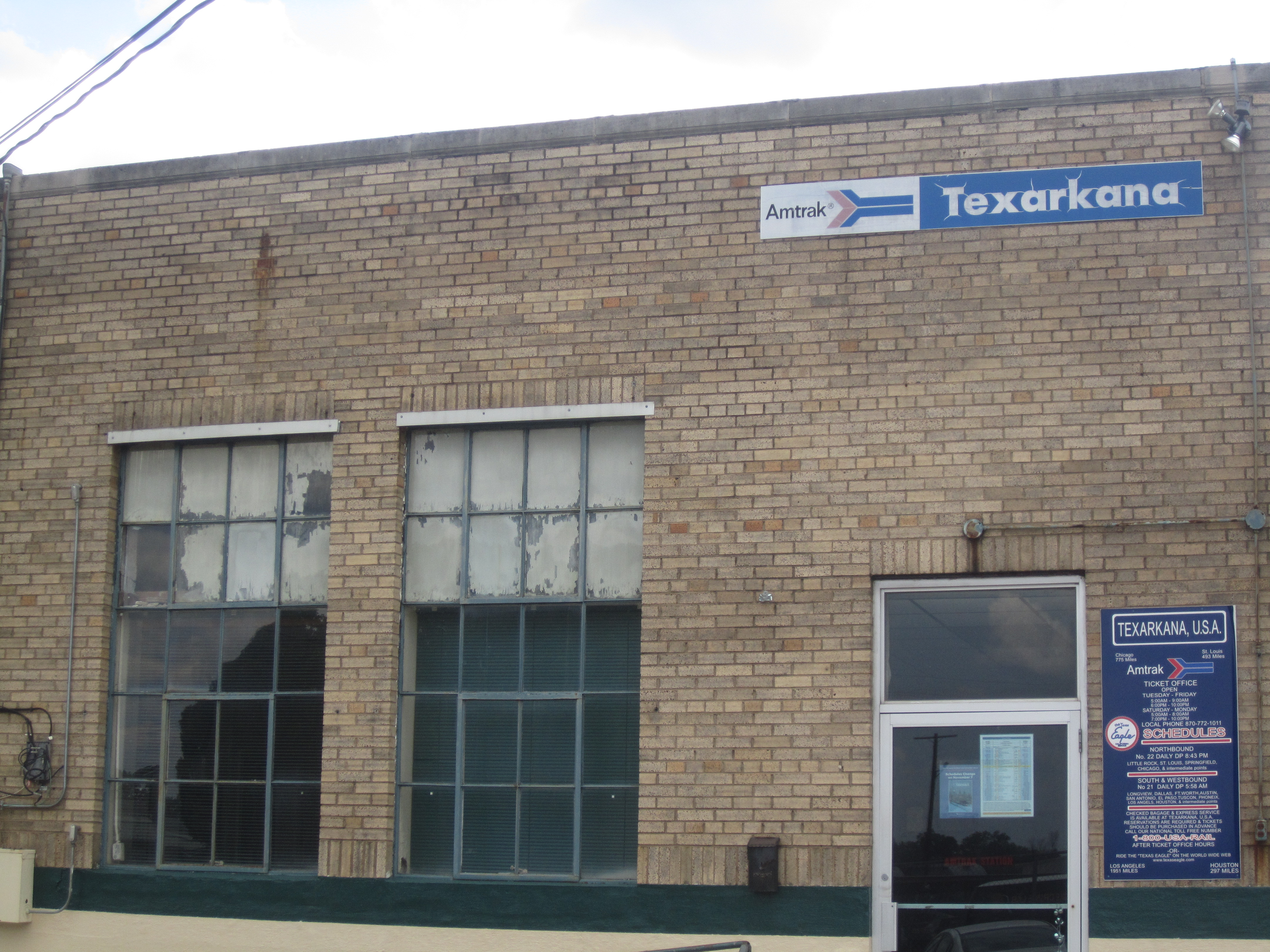 I took photo with Canon camera on June 9, 2012. Billy Hathorn (talk) 00:57, 29 June 2012 (UTC)